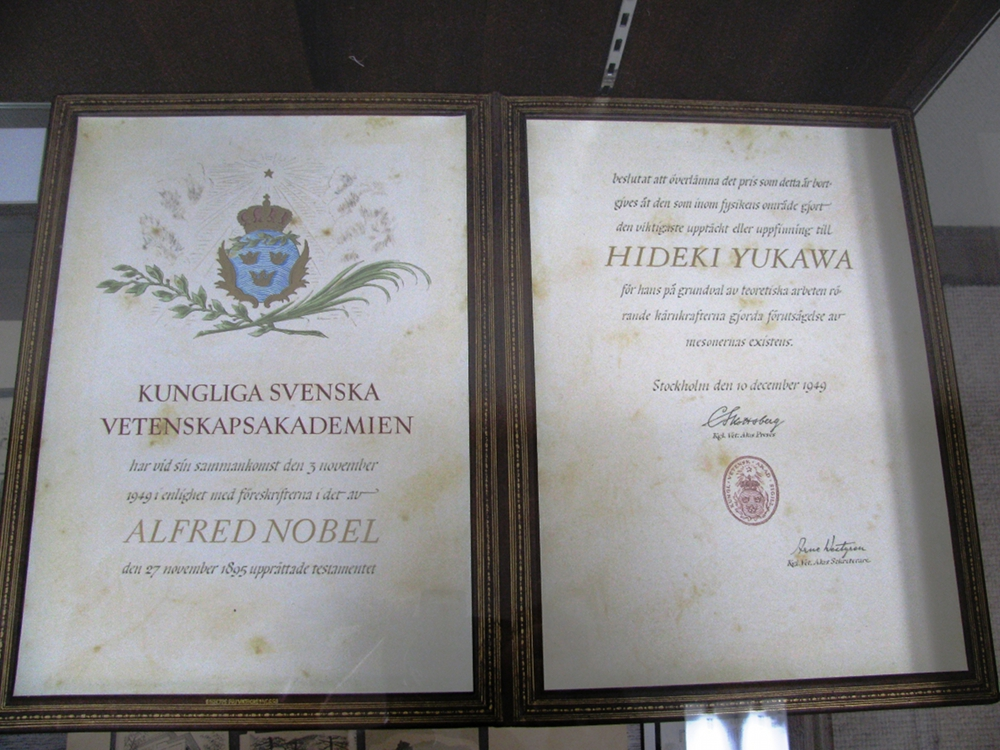 Copy of the Nobel Prize diploma awarded to Hideki Yukawa.